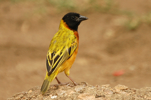 Queen Elizabeth National Park - Uganda Yellow-backed Weaver Ploceus melanocephalus Mbweya QE NP Dec 2005